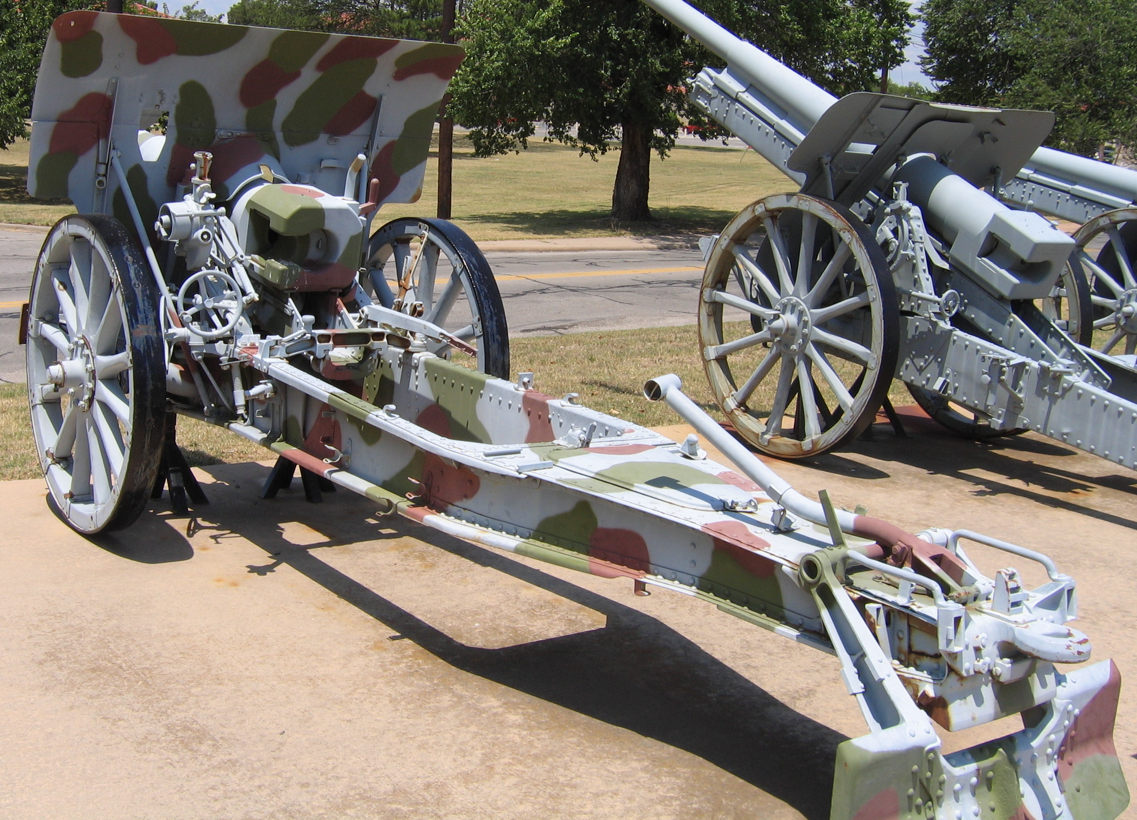 Photograph of German 15 cm sFH 13 (15 cm heavy field howitzer 1913). Location : U.S. Army Field Artillery Museum, Ft. Sill, Oklahoma.